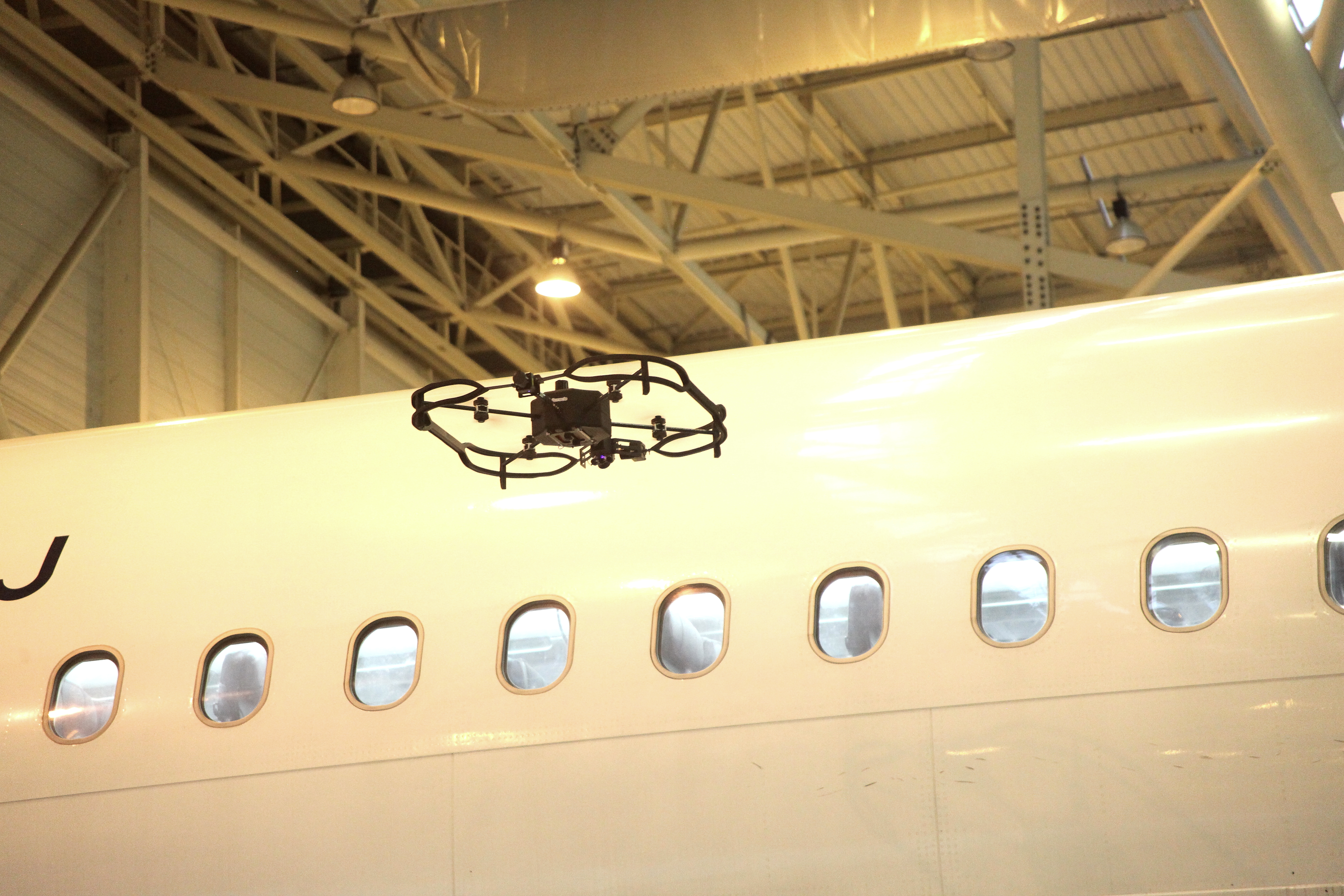 Donecle's drone is inspecting an aircraft during a maintenance operation. The picture was taken in an hangar of Air France Industries, Toulouse, France.